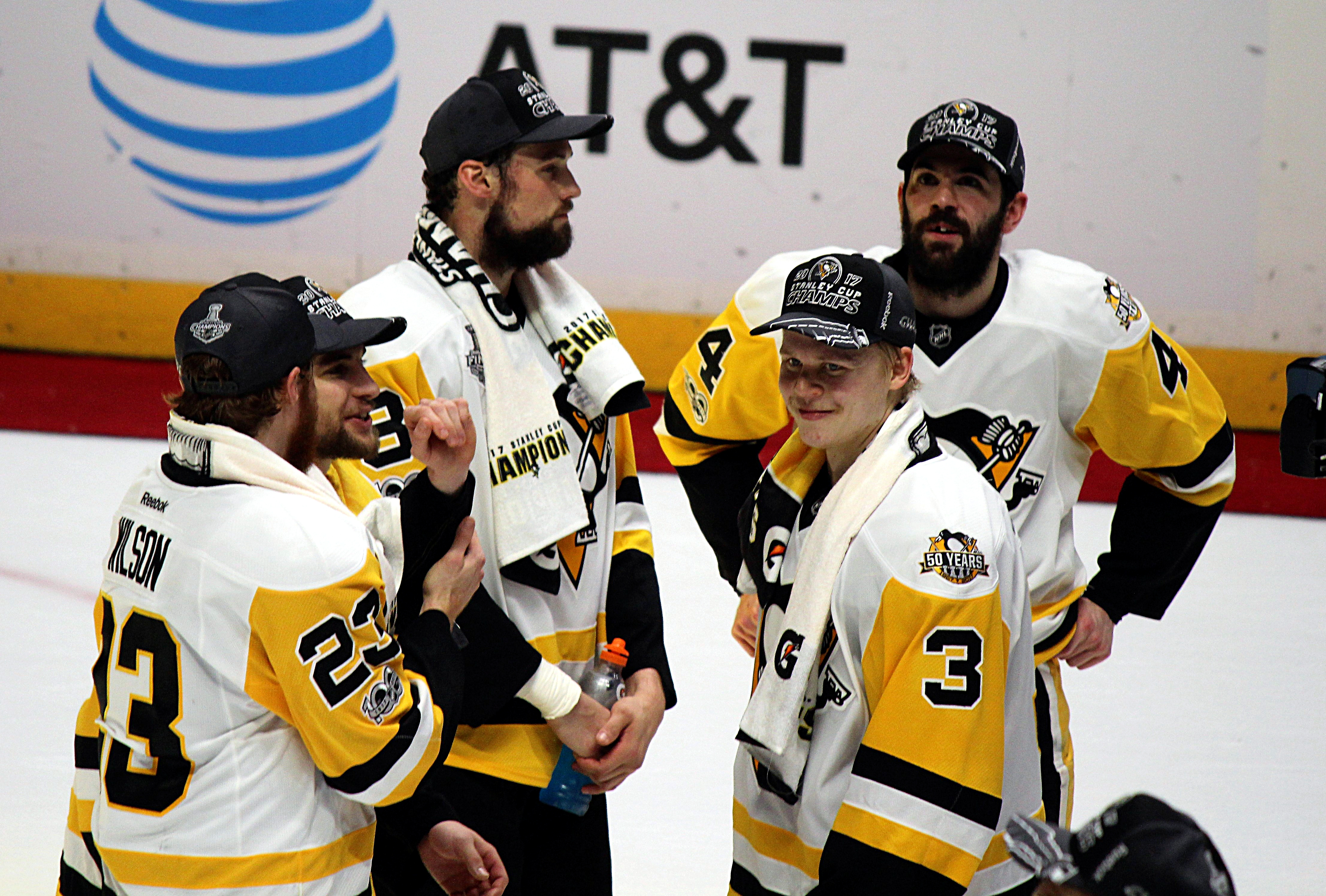 Pittsburgh Penguins defenseman Olli Maatta with Justin Schultz, Scott Wilson, Conor Sheary and Brian Dumoulin following the Pens 2017 Stanley Cup win in Nashville.